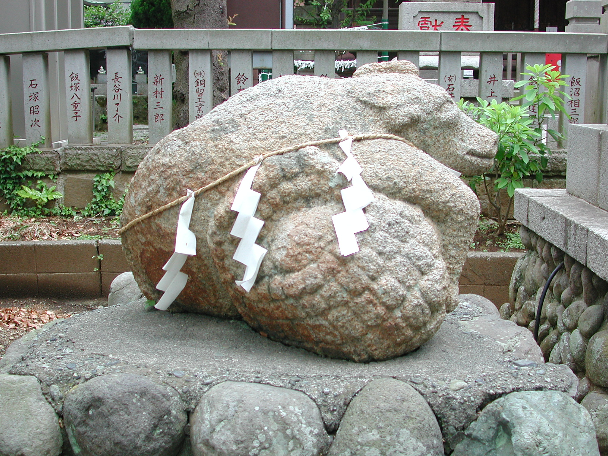 Nadeushi in Sugawara Jinja (Kouzu, Odawara-shi, Kanagawa)